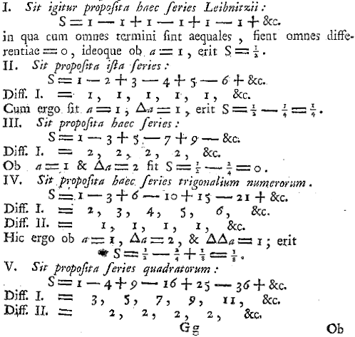 Euler applies his transform to sum several series related to 1 − 2 + 3 − 4 + · · ·